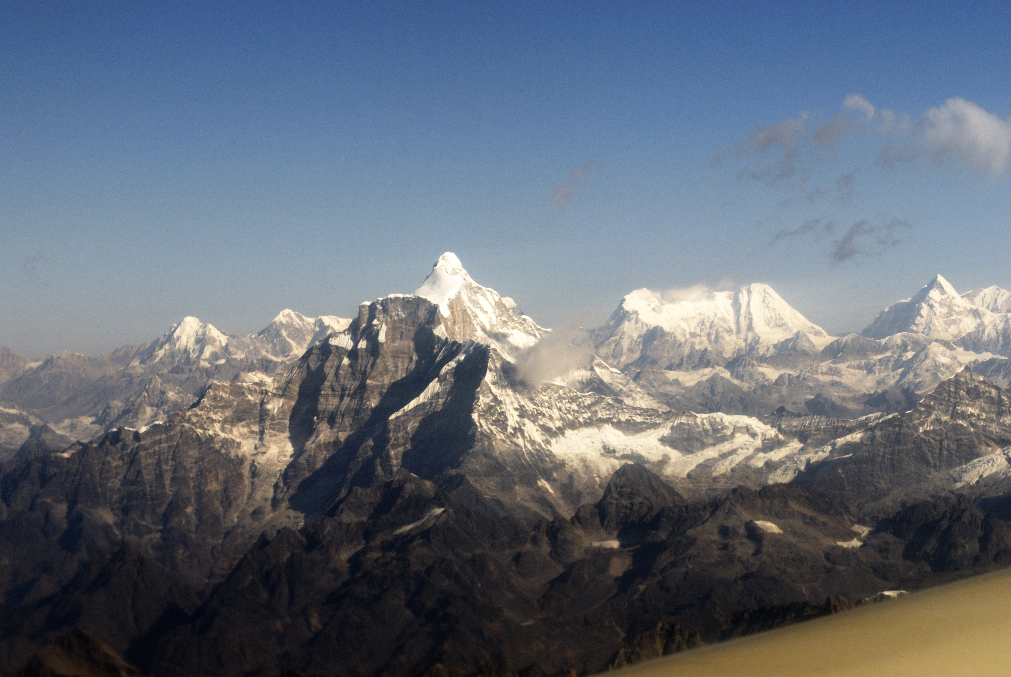 Gauri Shankar (7134 m) and on the right nameless P. 6952 and Labuche Kang II (7072 m), the sharp pyramid